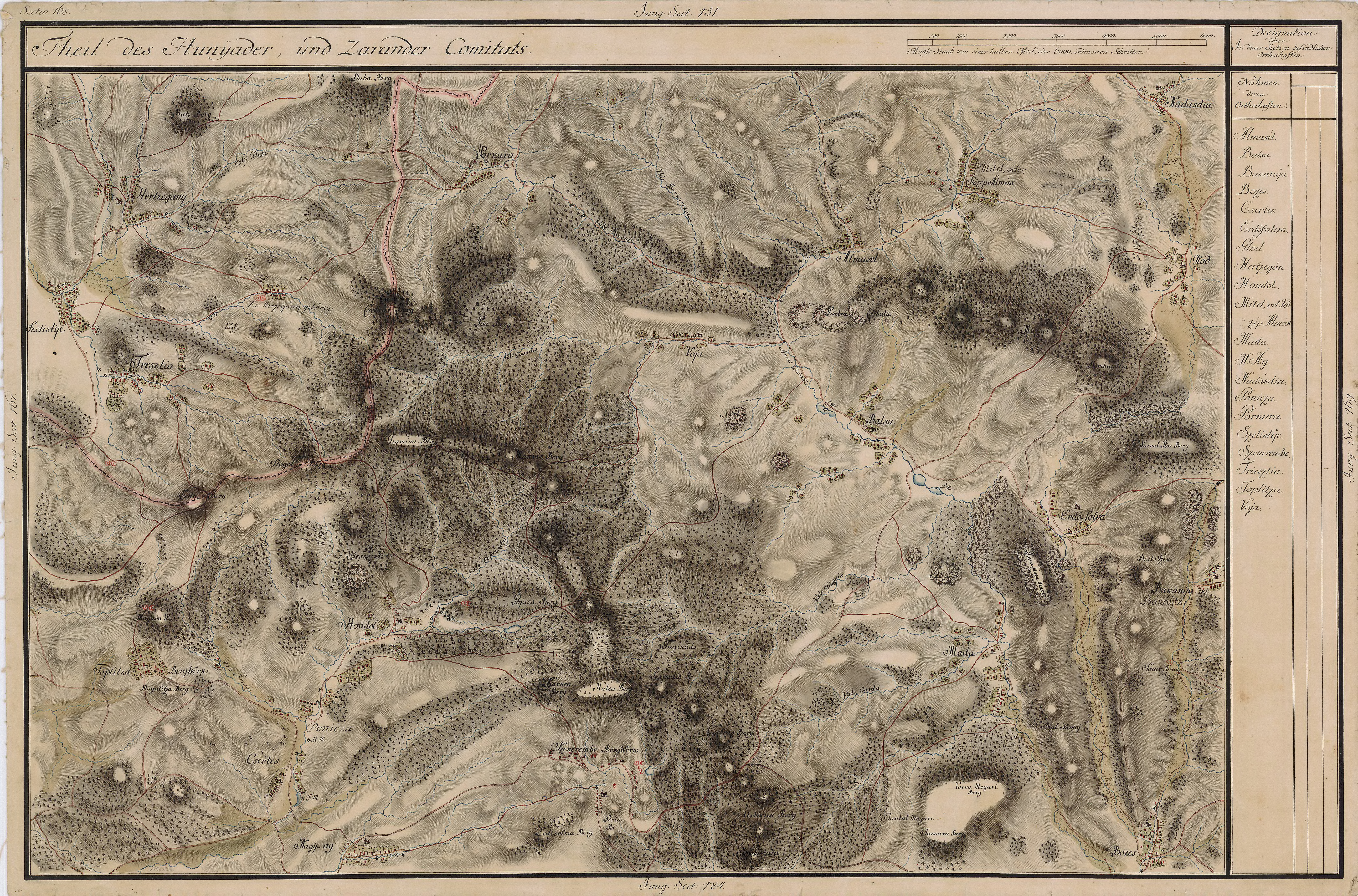 Grand Duchy of Transylvania, 1769-1773. Josephinische Landaufnahme pg.168